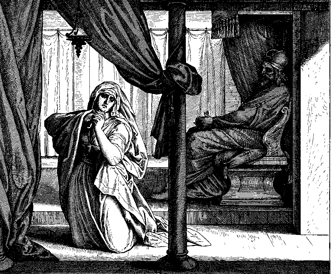 Woodcut for "Die Bibel in Bildern", 1860.